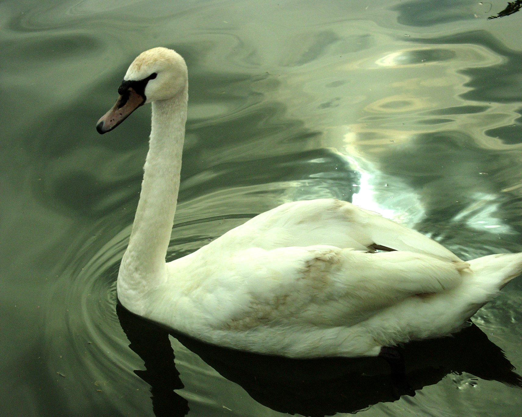 Doppler effect of a swan around.